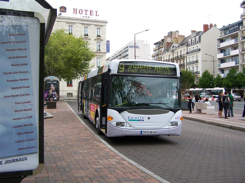 Scania CN94UB OmniCity bus (#412) in Angers, France. Year built 1998. COTRA Angers company.